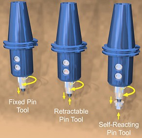 Friction Stir Welding tools. The first one has a fixed pin and the other ones has a retractable pin.